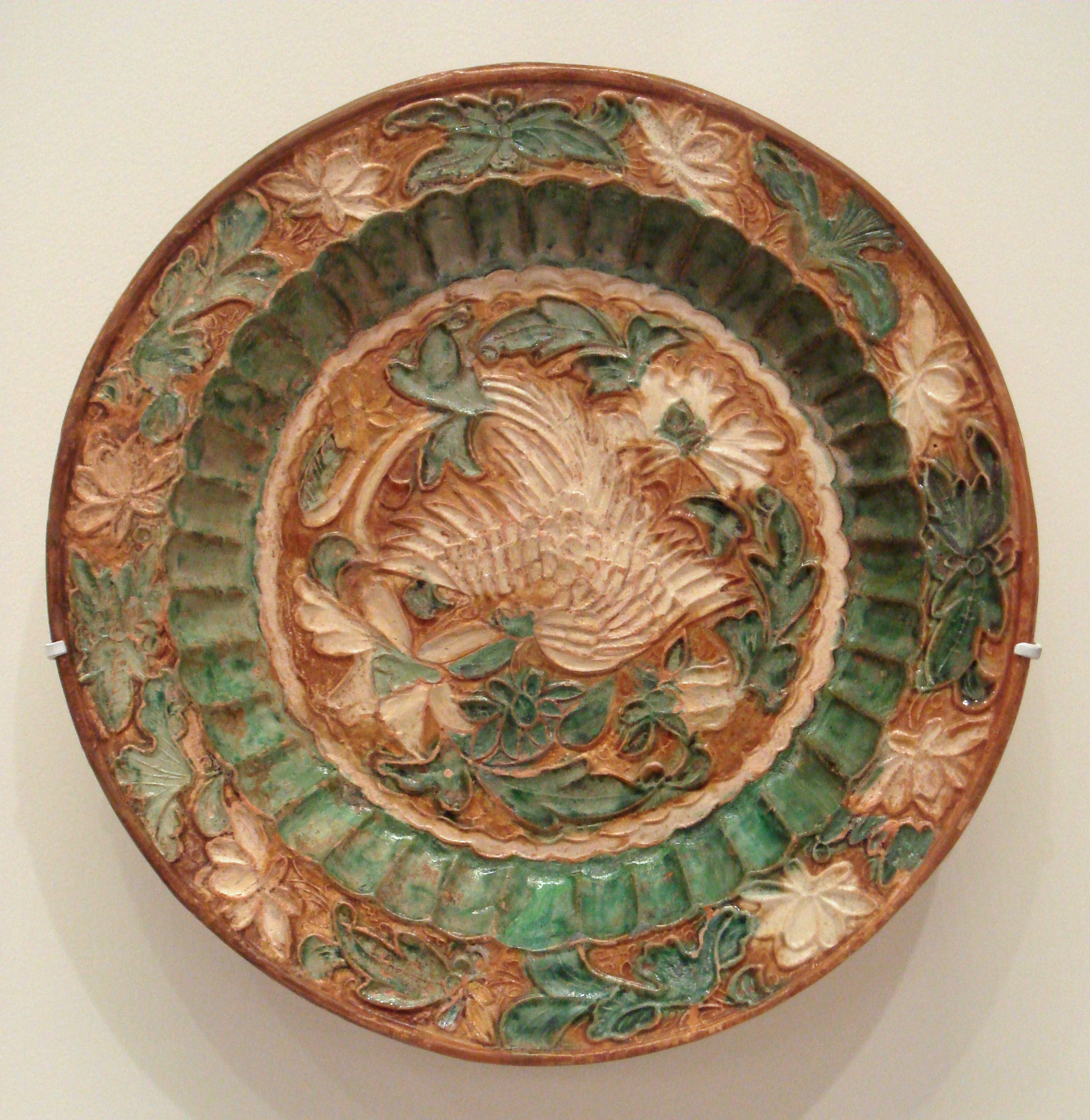 Sancai Plate, the Khitan Liao Dynasty of Manchuria (North East China), X-XIIth century, or 907-1125 AD.